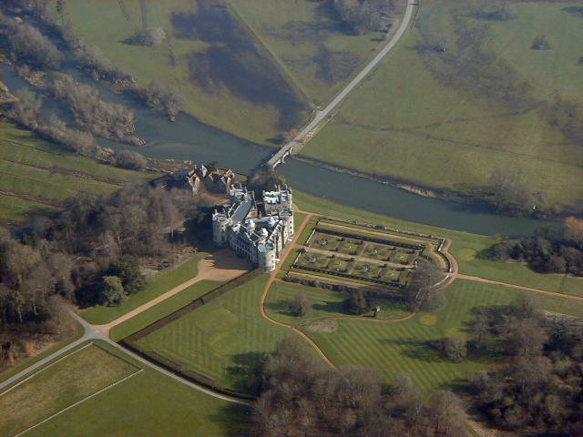 Longford Castle is located south of Salisbury, Wiltshire, England. A view of Longford Castle, and its grounds beside the river Avon, from a light aircraft.